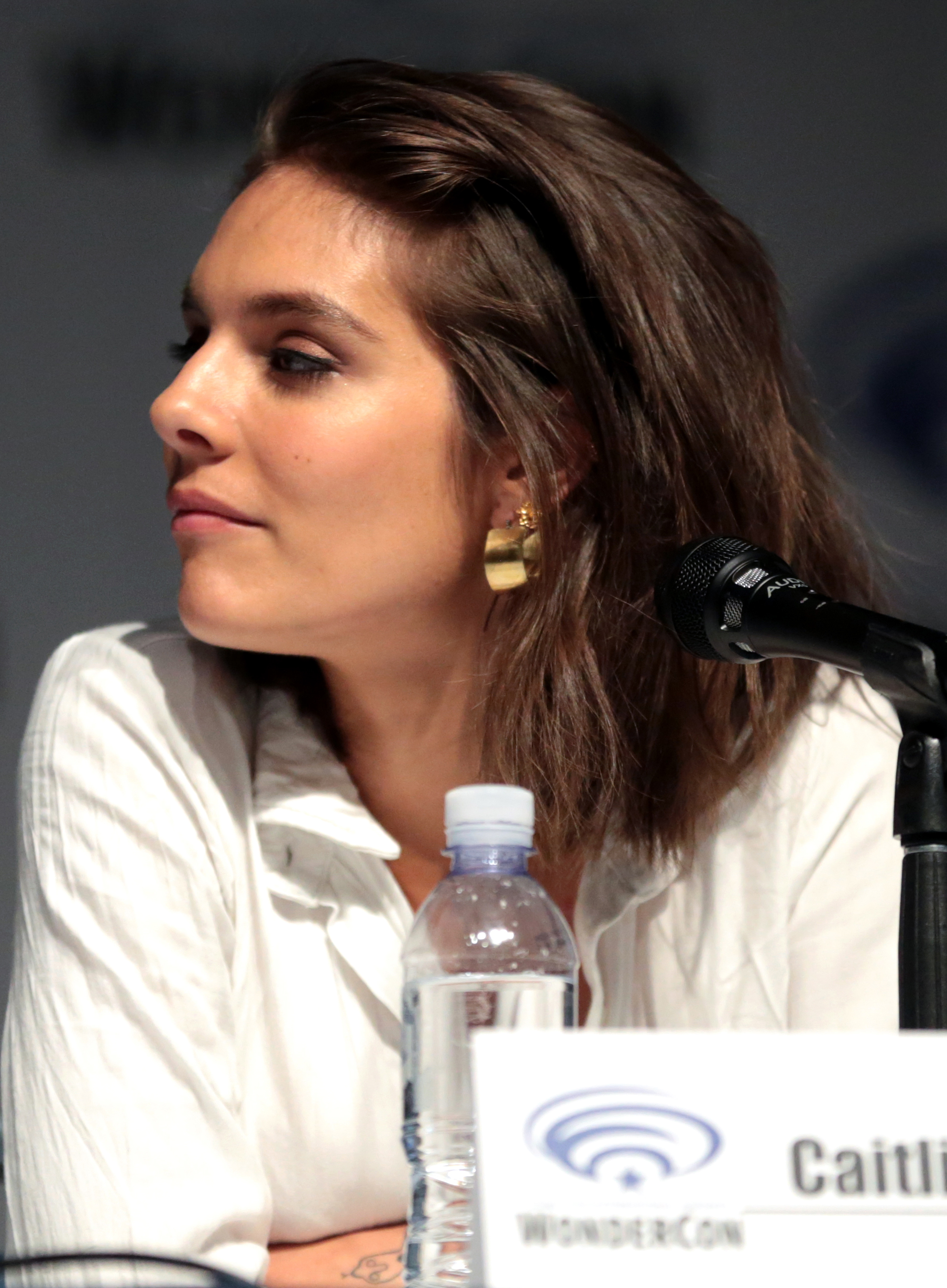 Caitlin Stasey speaking at the 2017 WonderCon in Anaheim, California.